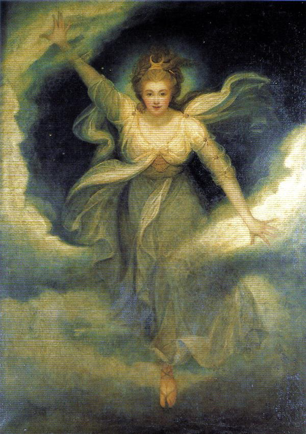 The Duchess of Devonshire as Cynthia from Spenser's 'The Faerie Queene'.